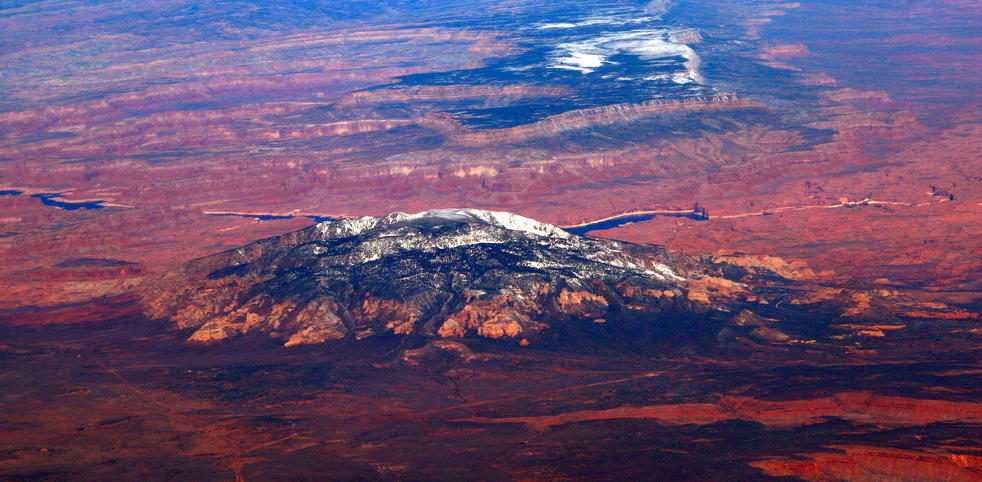 An aerial north facing view of Navajo Mountain and Lake Powell in southern Utah, USA. Uploaded on February 23, 2008 by the Author: dsearls